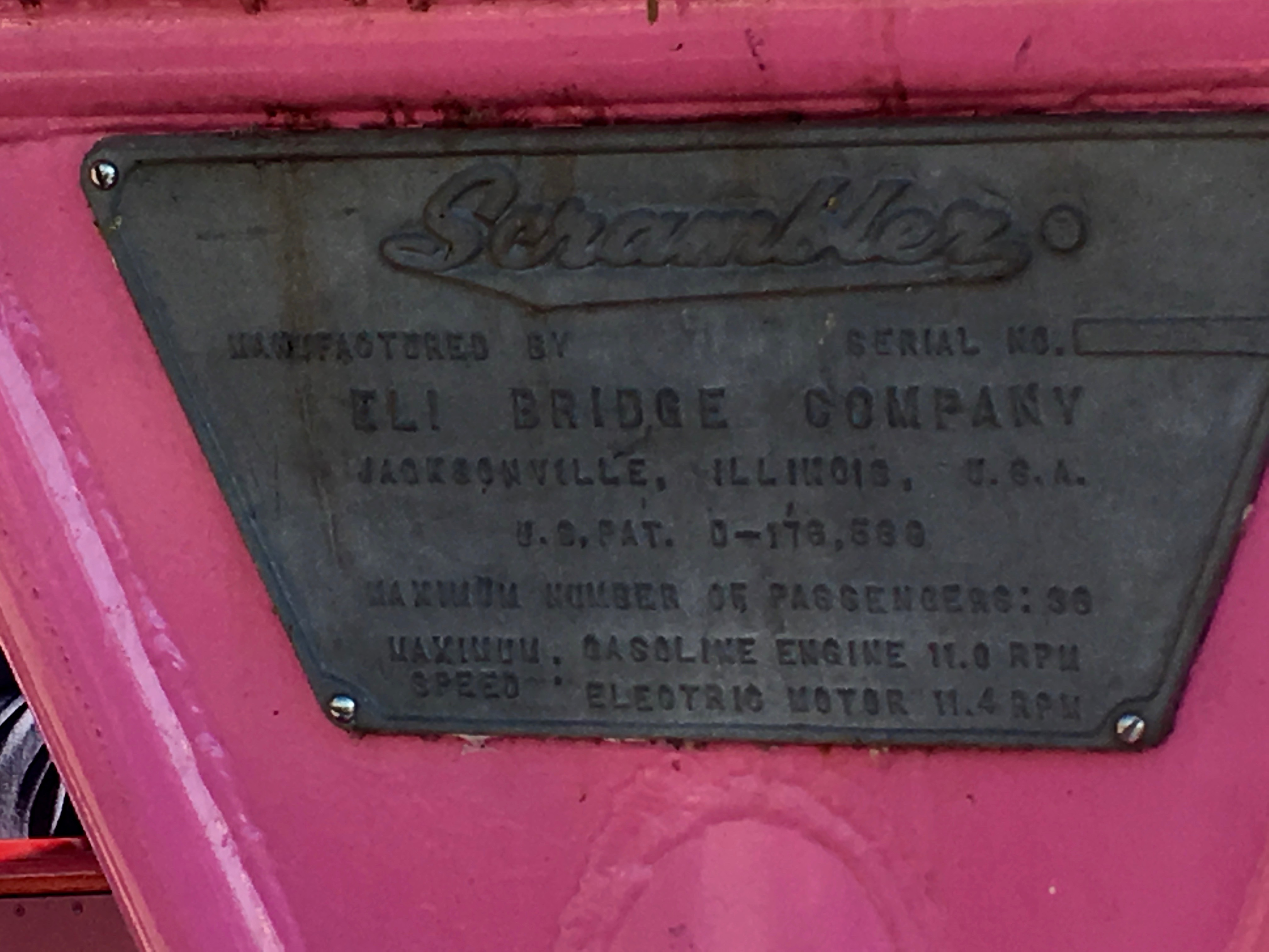 Manufacturing tablet for the Scrambler at Cedar Point.